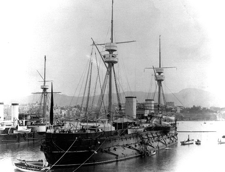 Spanish battleship Pelayo at Genoa, Italy, in October 1892, on the occasion of the 400th anniversary of the first voyage of Christopher Columbus to America. The Austro-Hungarian battleship Kronprinzessin Erzherzogin Stephanie (1887-1926) is in the left background. Photo #: NH 88731 Copied from Office of Naval Intelligence Album of Foreign Warships.